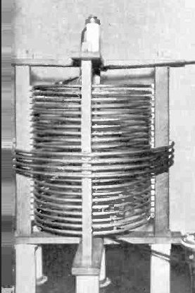 An antenna tuning inductor on the output stage of the transmitter of AM radio station WOR (AM) in New York City in 1935, which broadcast on 710 kHz at a power of 50 kW. From an advertisement in an electronics magazine. It shows typical construction used in high Q high power radio frequency coils. Since radio frequency currents flow on the surface of conductors due to skin effect, to reduce resistance the coil is made of large surface area copper tubing. To reduce proximity effect losses the windings consist of a single layer, with the turns spaced apart. To reduce dielectric losses the coil is suspended in air, supported by thin ceramic insulator strips.